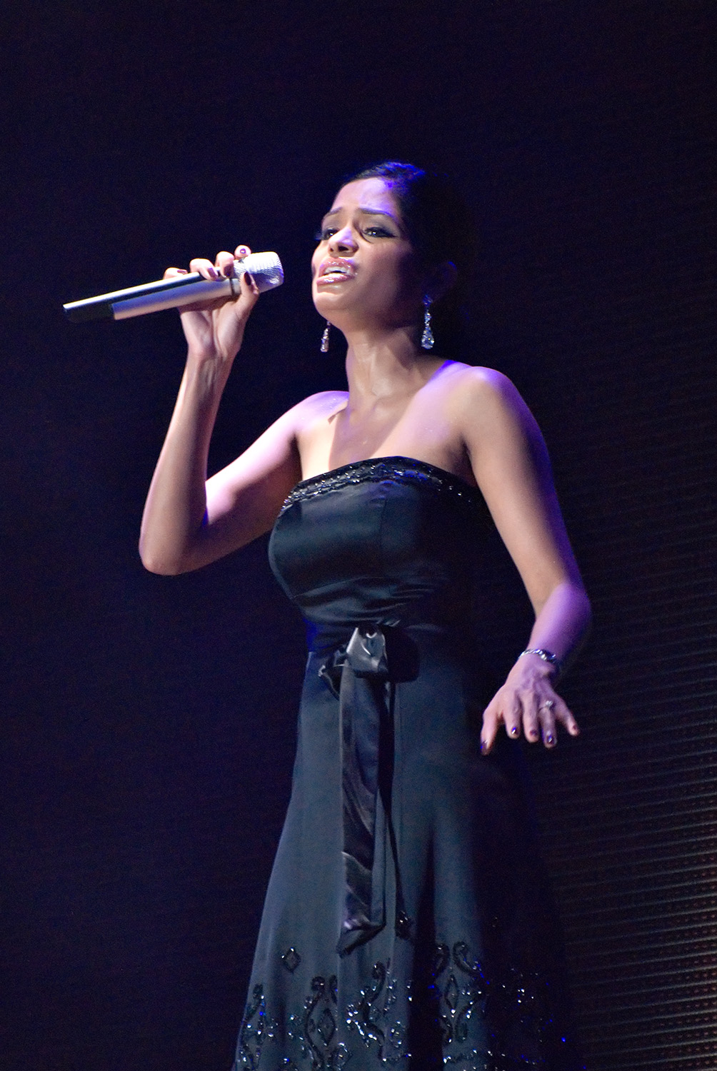 Jaclyn Victor performing at Live and Loud KL 2007.